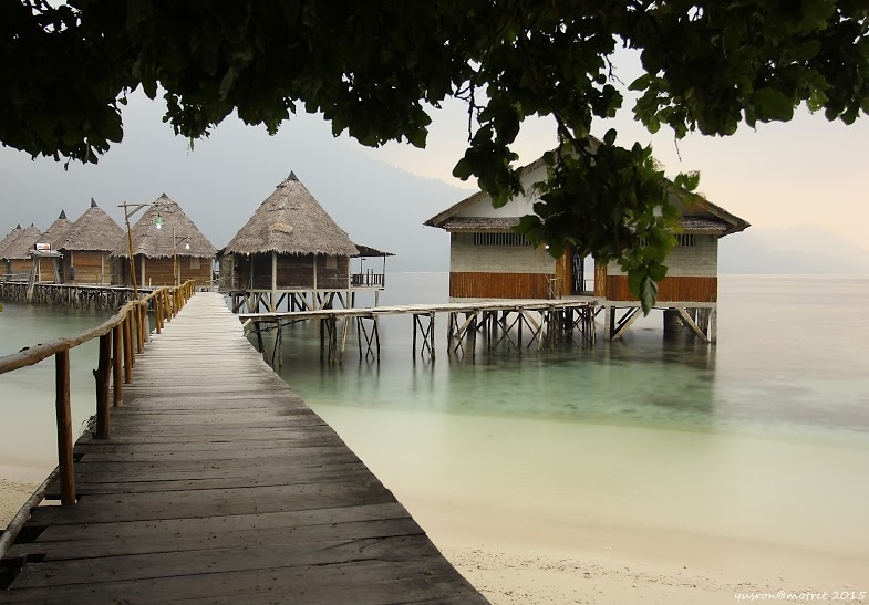 Over water bungalow in Ora Beach